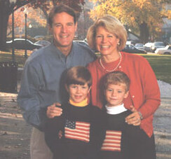 Evan Bayh's family